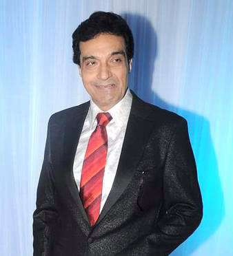 Dheeraj Kumar at Esha Deol's wedding reception